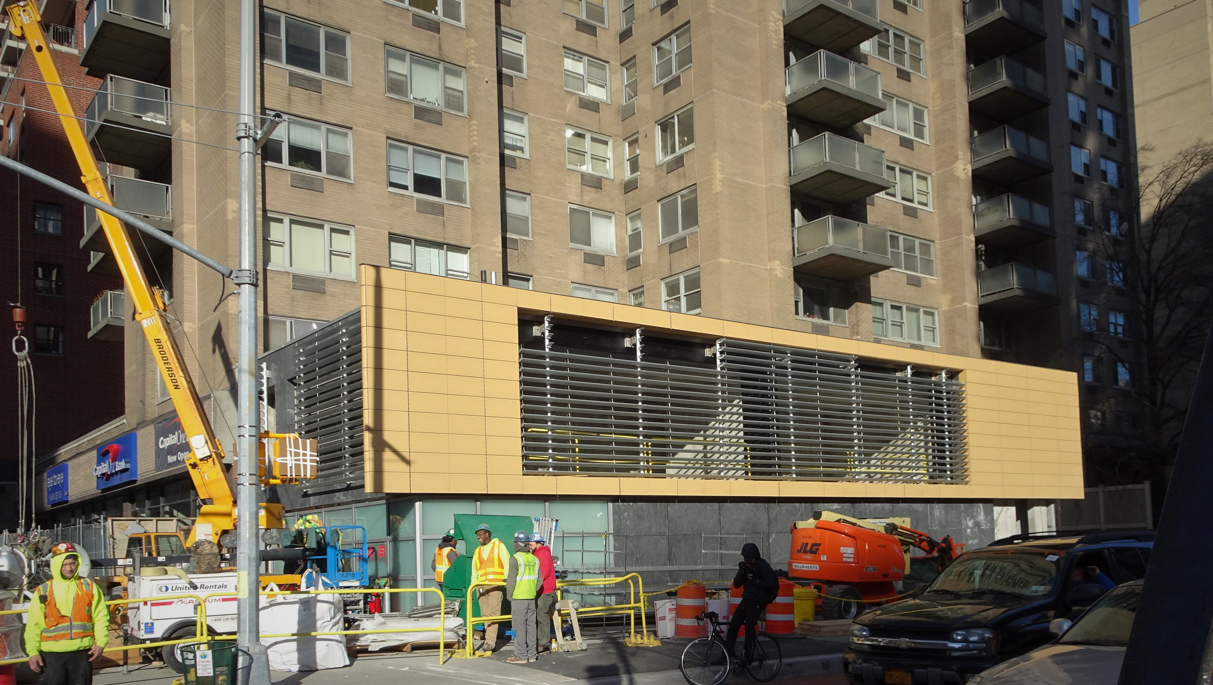 Cut version